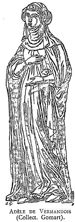 Adelaide, Countess of Vermandois